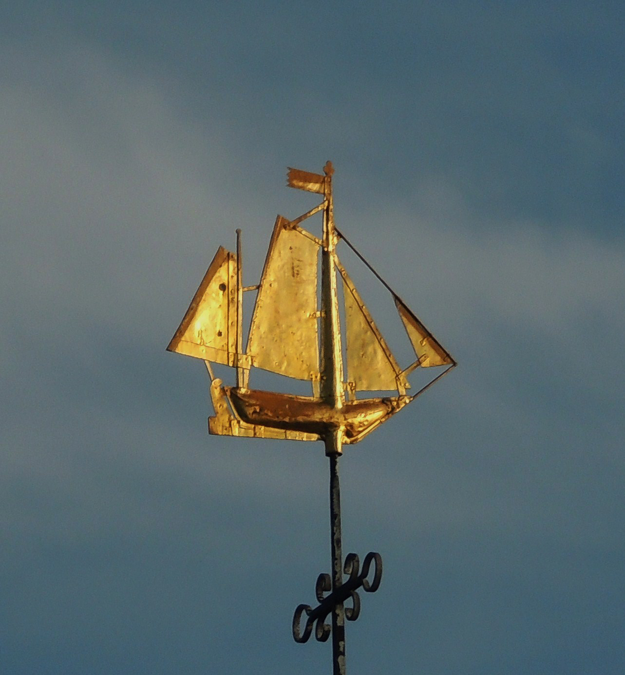 Weather vane Maria church